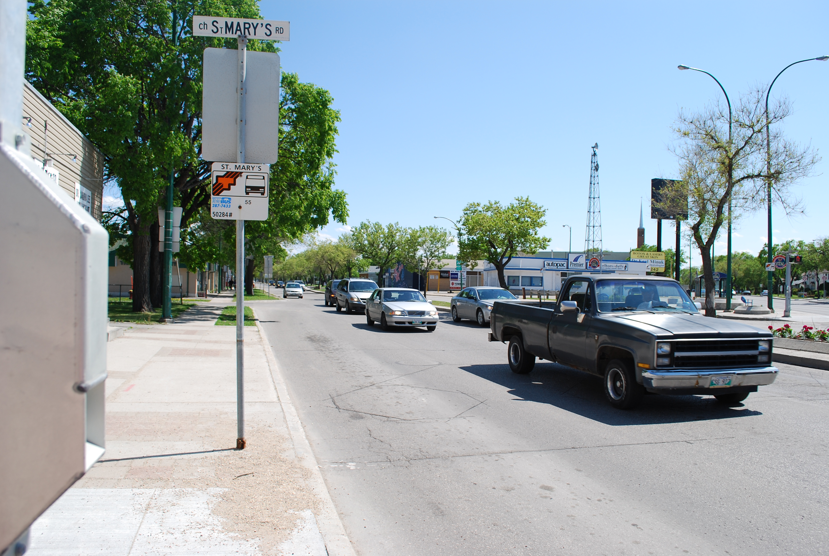 St. Anne's Junction, North St. Vital, Winnipeg - junction of St. Anne's and St. Mary's Roads looking southbound along St. Anne's Road. The neighbourhood on the extreme right is Elm Park, on the centre right is Varennes, on the left is Glenwood.